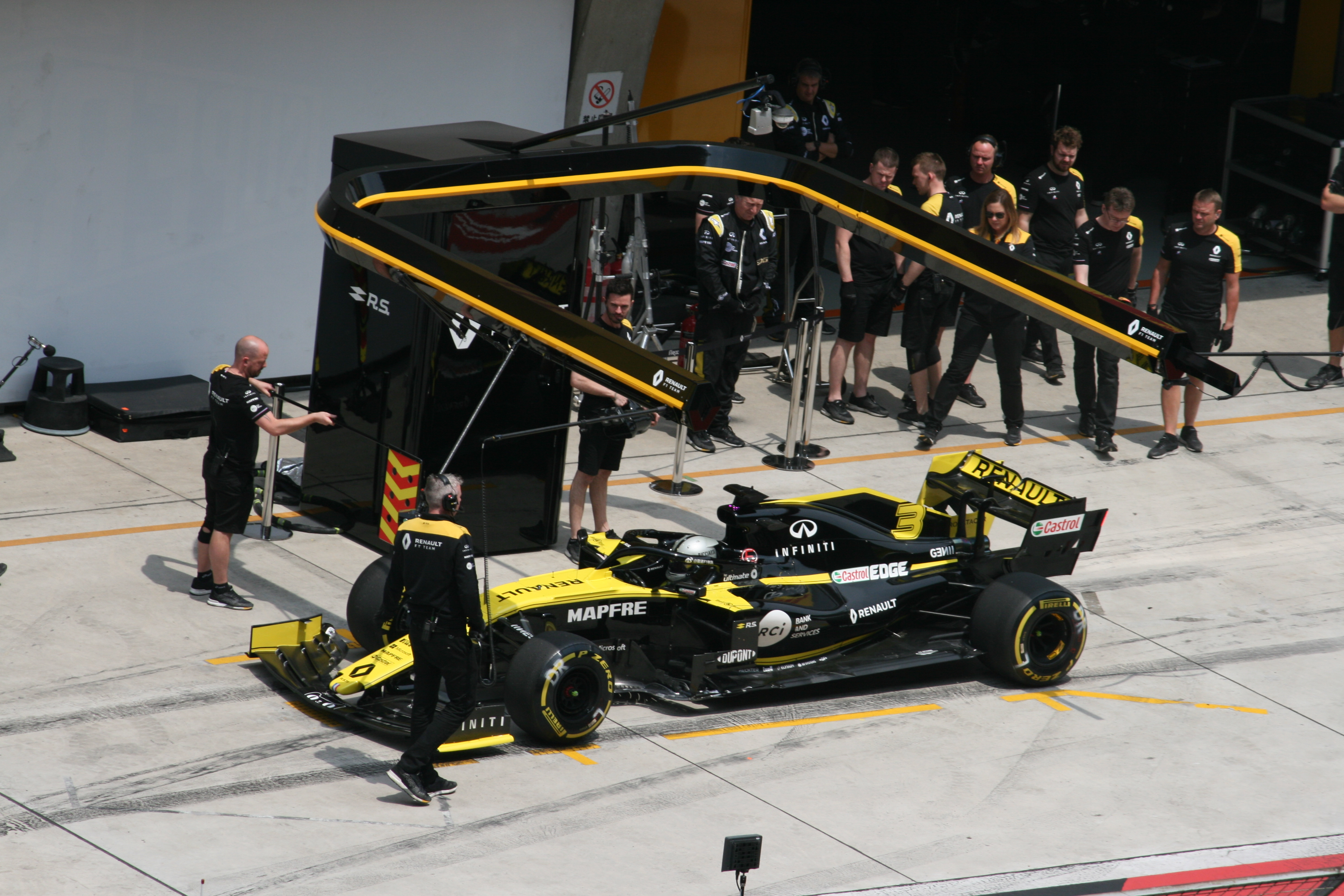 Daniel Ricciardo, 2019 Chinese GP